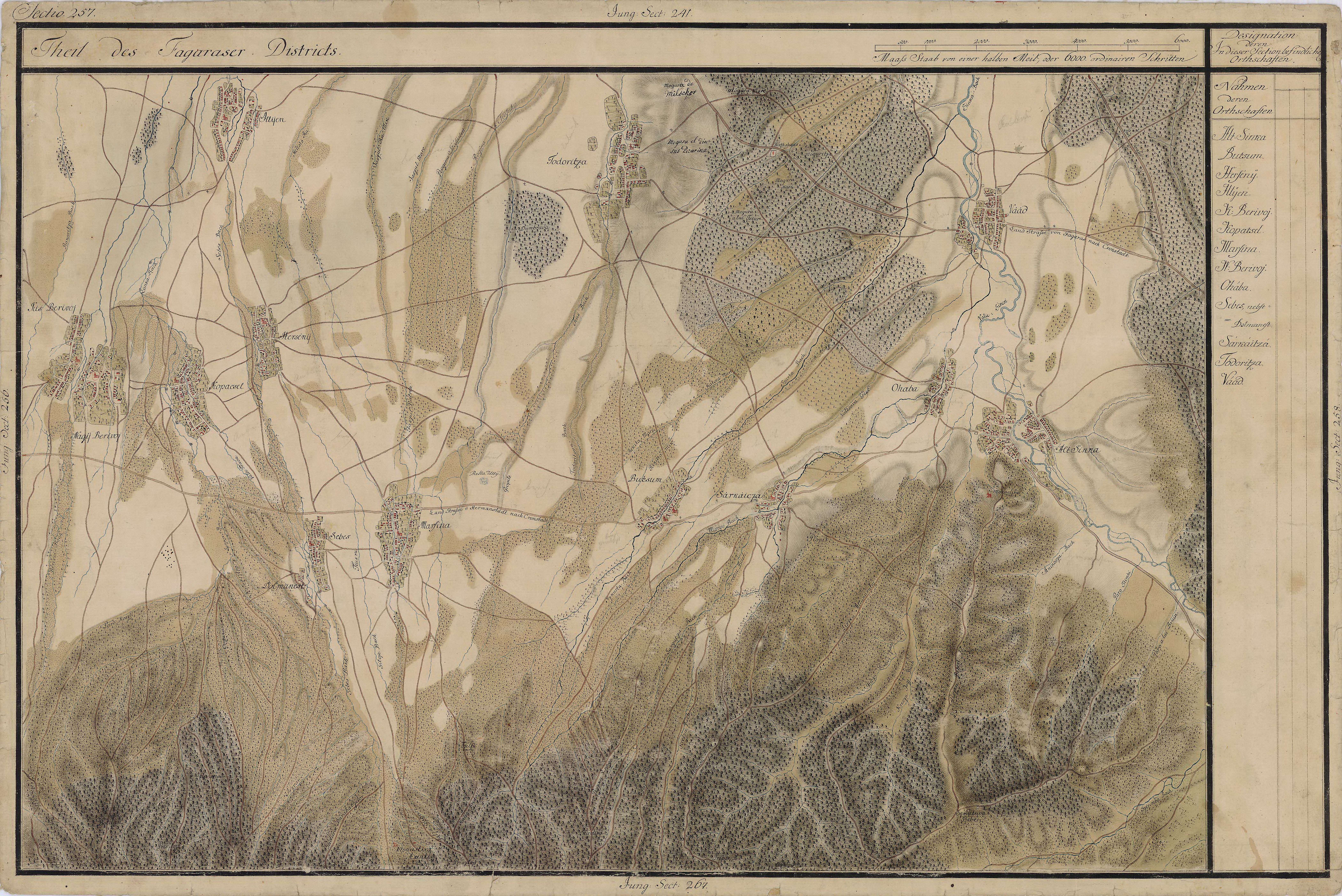 Grand Duchy of Transylvania, 1769-1773. Josephinische Landaufnahme pg.257